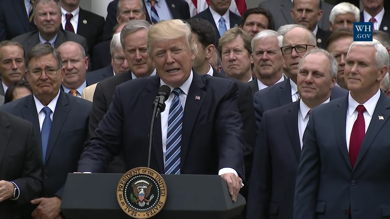 President Trump speaking with a number of key Republicans at the Rose Garden of the White House following the passage of the American Health Care Act by the House of Representatives, inching closer to essentially repealing and replacing the Patient Protection and Affordable Care Act (known as Obamacare, or simply ACA).